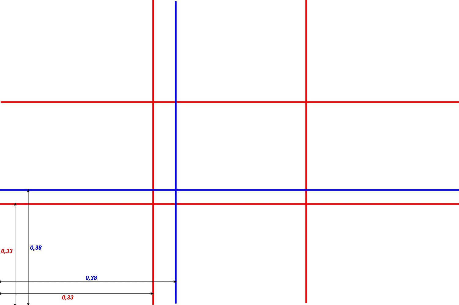 Image showing the difference between the rule of thirds versus golden ratio